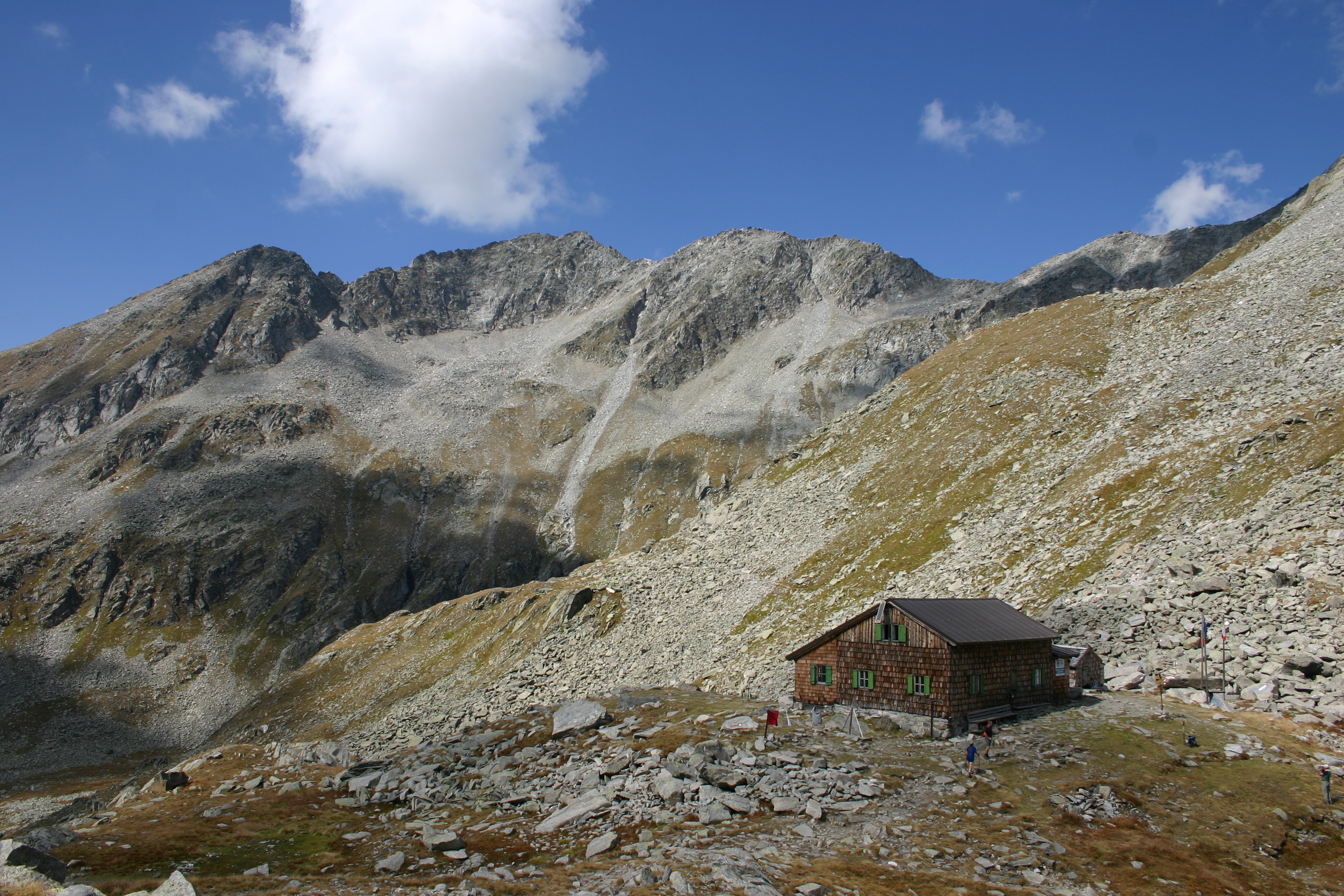 Edelrauthütte (2.545 m), Zillertaler Alpen, from right to left: Plockshorn (3021 m), Östliche Hochwarte (3068 m) and Westliche Hochwarte (3045 m) from east